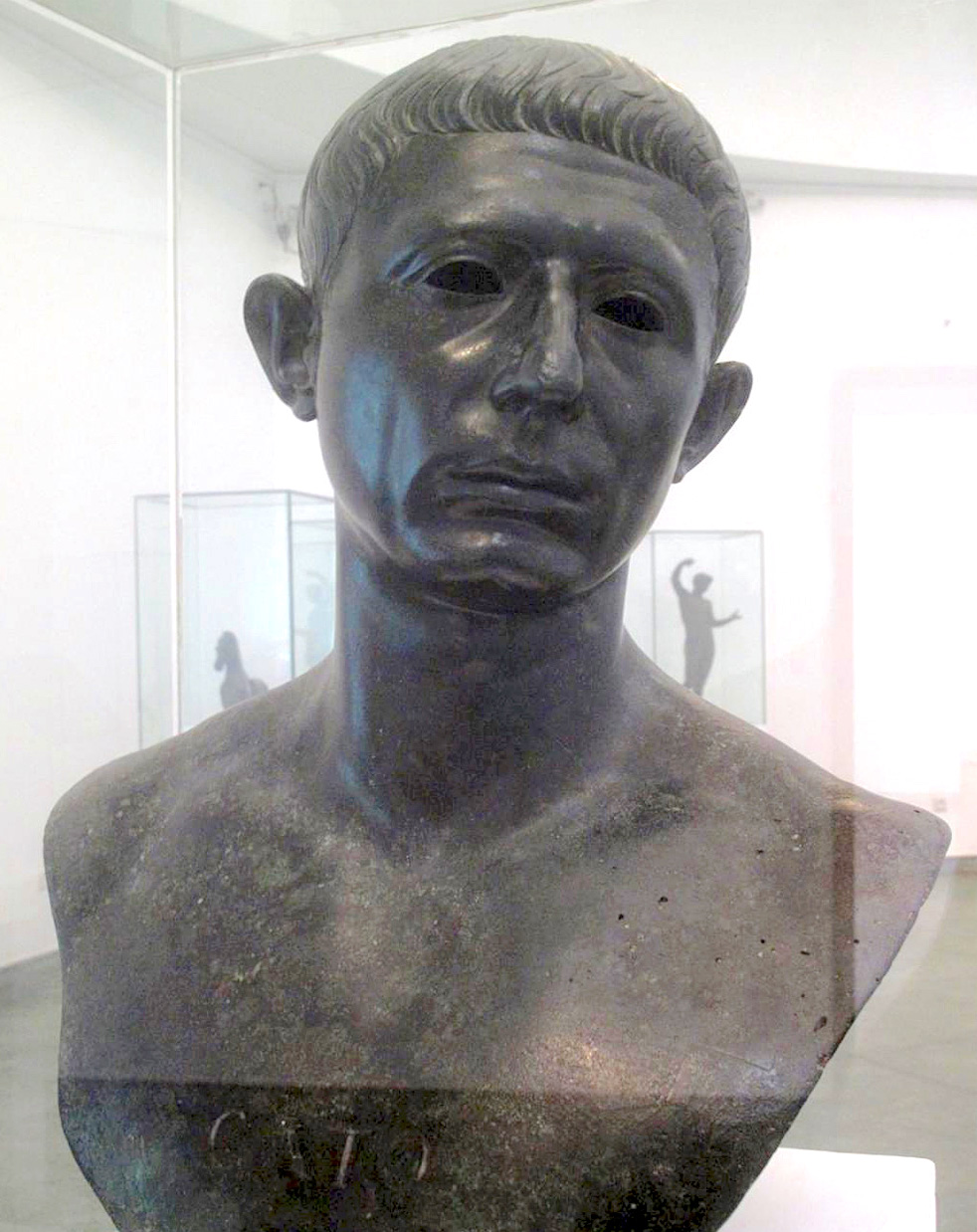 Bronze bust of Cato the Younger from the Archaeological Museum of Rabat, Morocco. Found in the House of Venus, Volubilis.